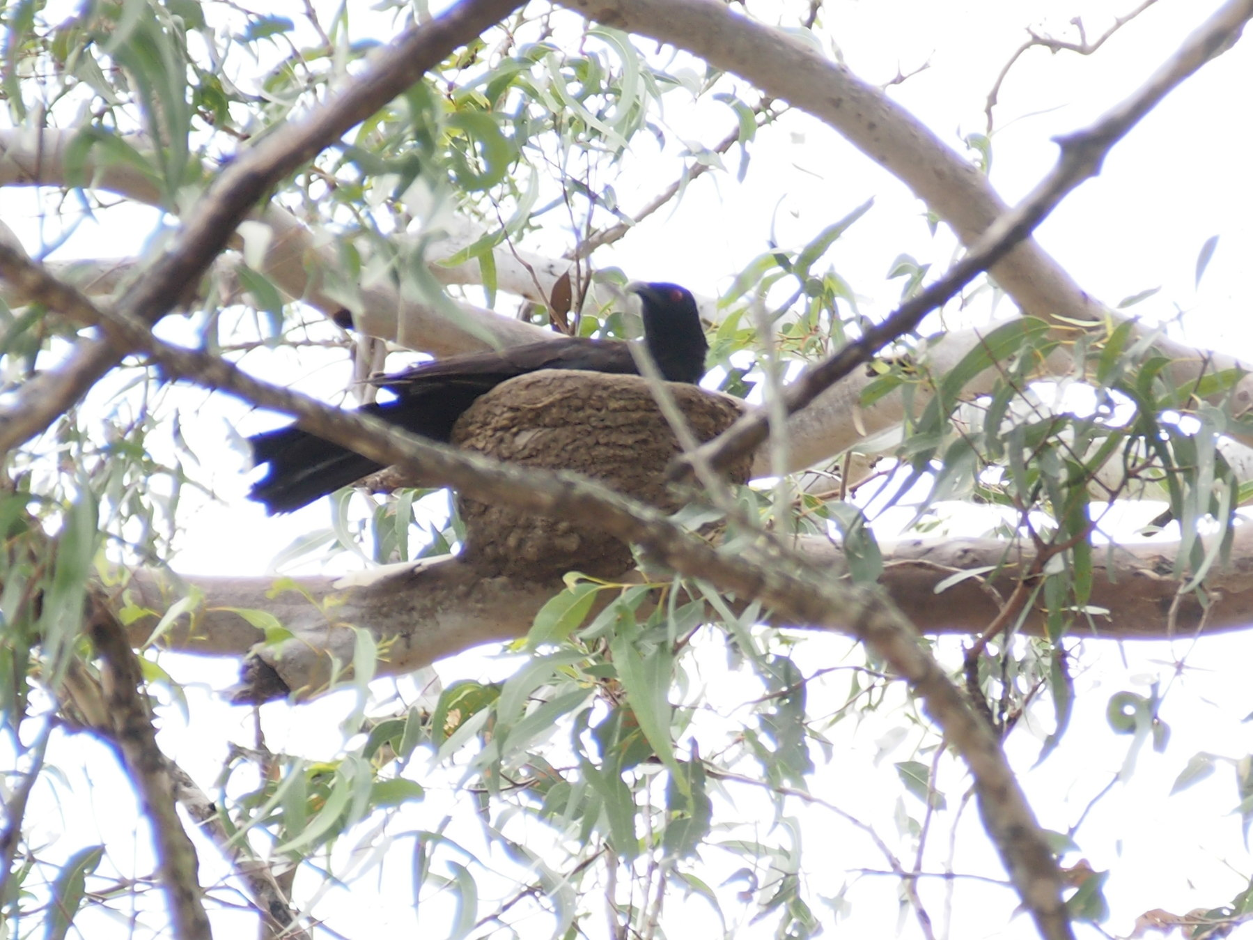 White-winged Chough (Corcorax melanorhamphos) in nest